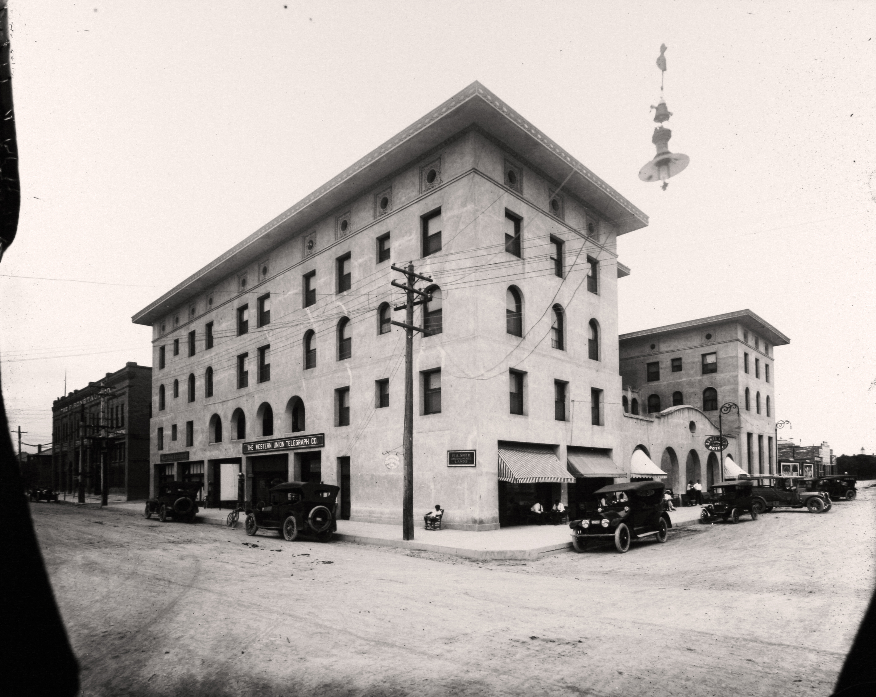 Photograph of Santa Rita Hotel, Tucson, Arizona